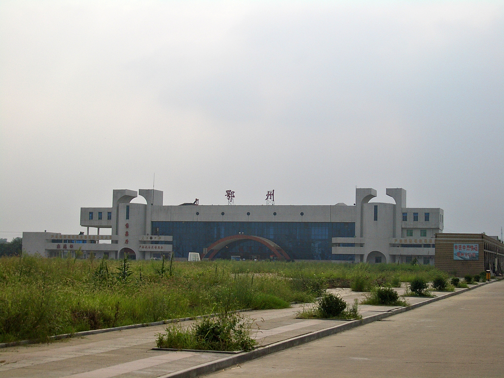 Ezhou train station, and wide - currently empy - field in front of it.